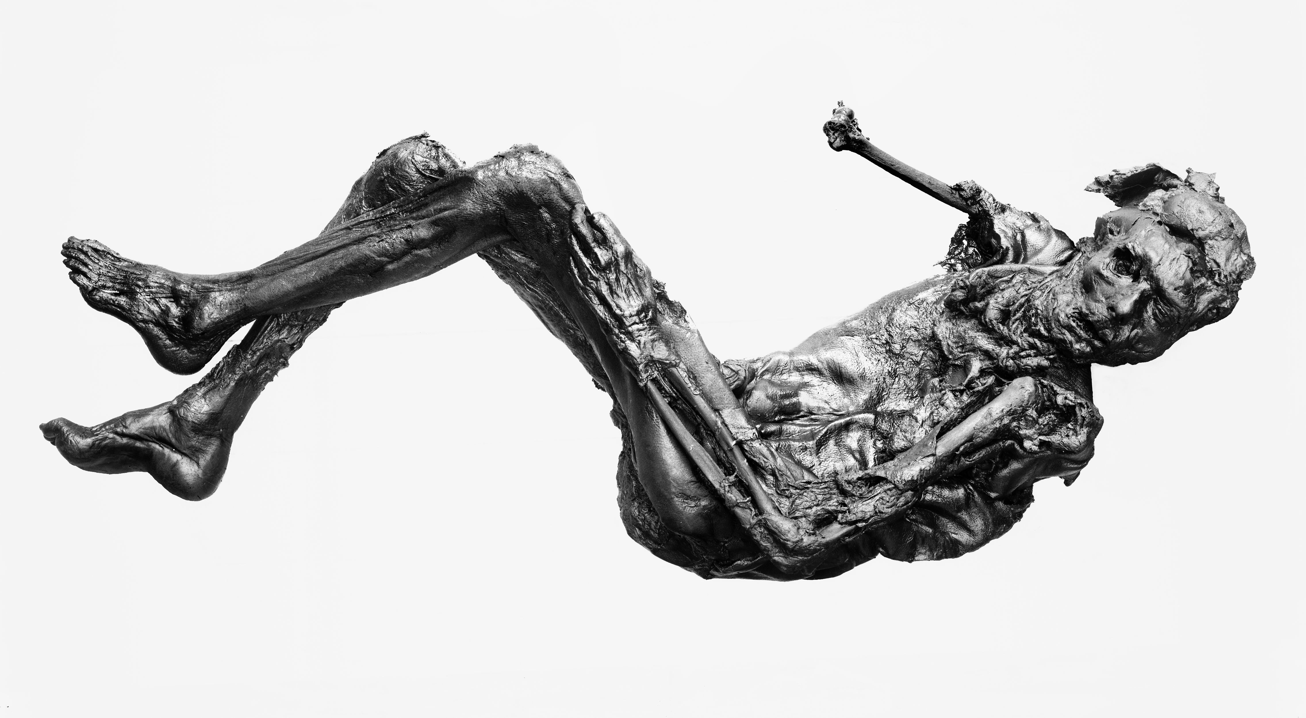 Bog body from Denmark, "Borremose Man"